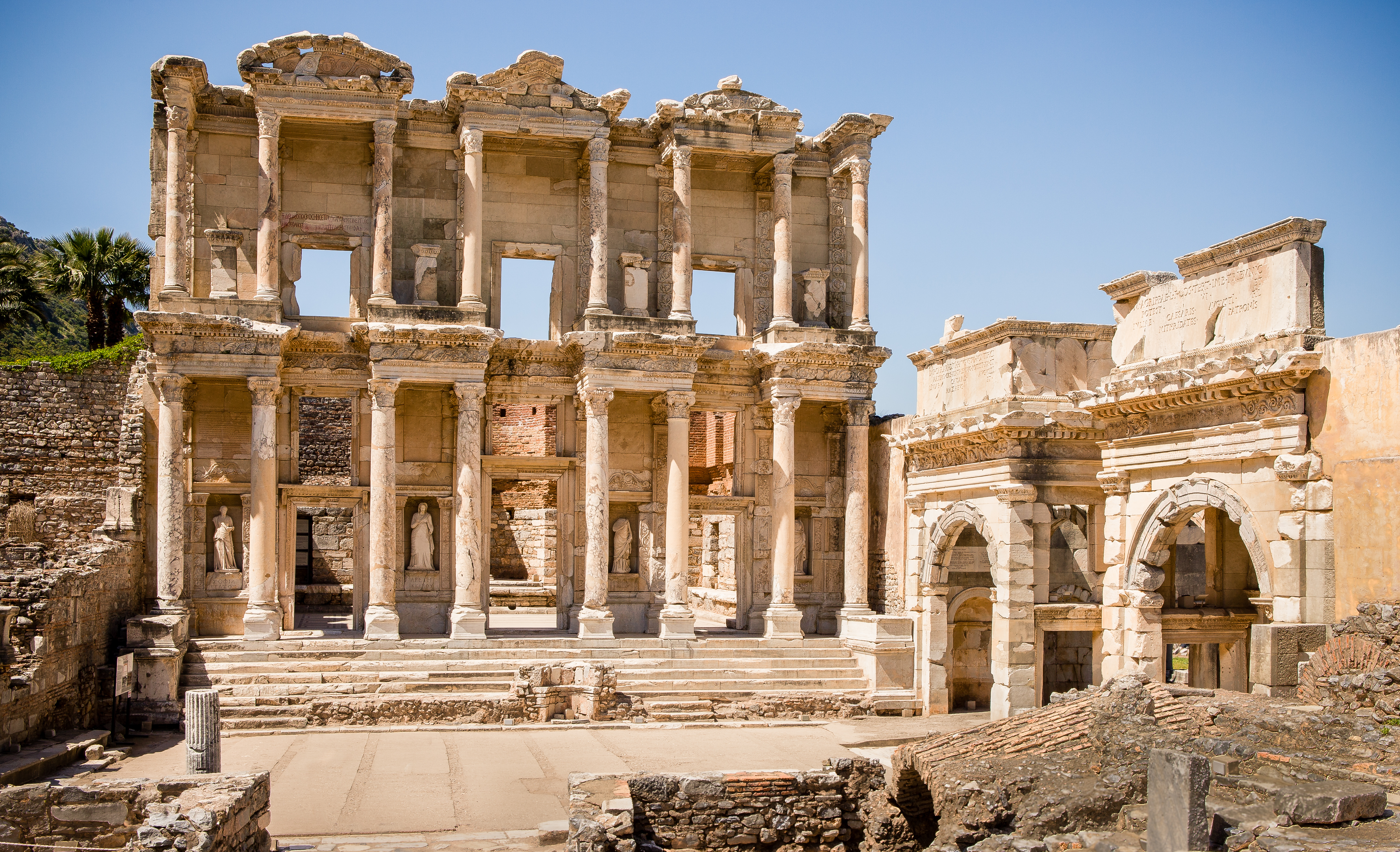 Roman building in Ephesus, Anatolia, now part of Selçuk, Turkey. No visitor.No tripod allowed - with a little help from my "good friend" rice- and beanspack!